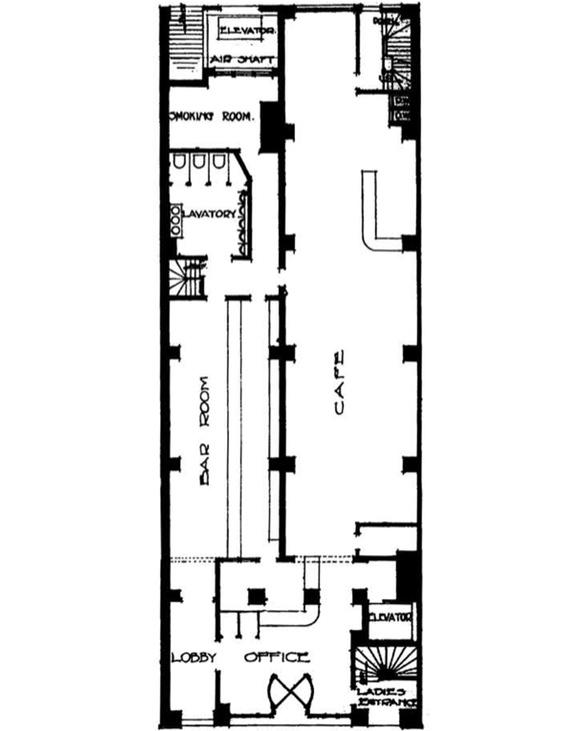 Ground Floor Plan, Hotel Mossop (1909), now the Hotel Victoria in Toronto, Ontario, Canada.